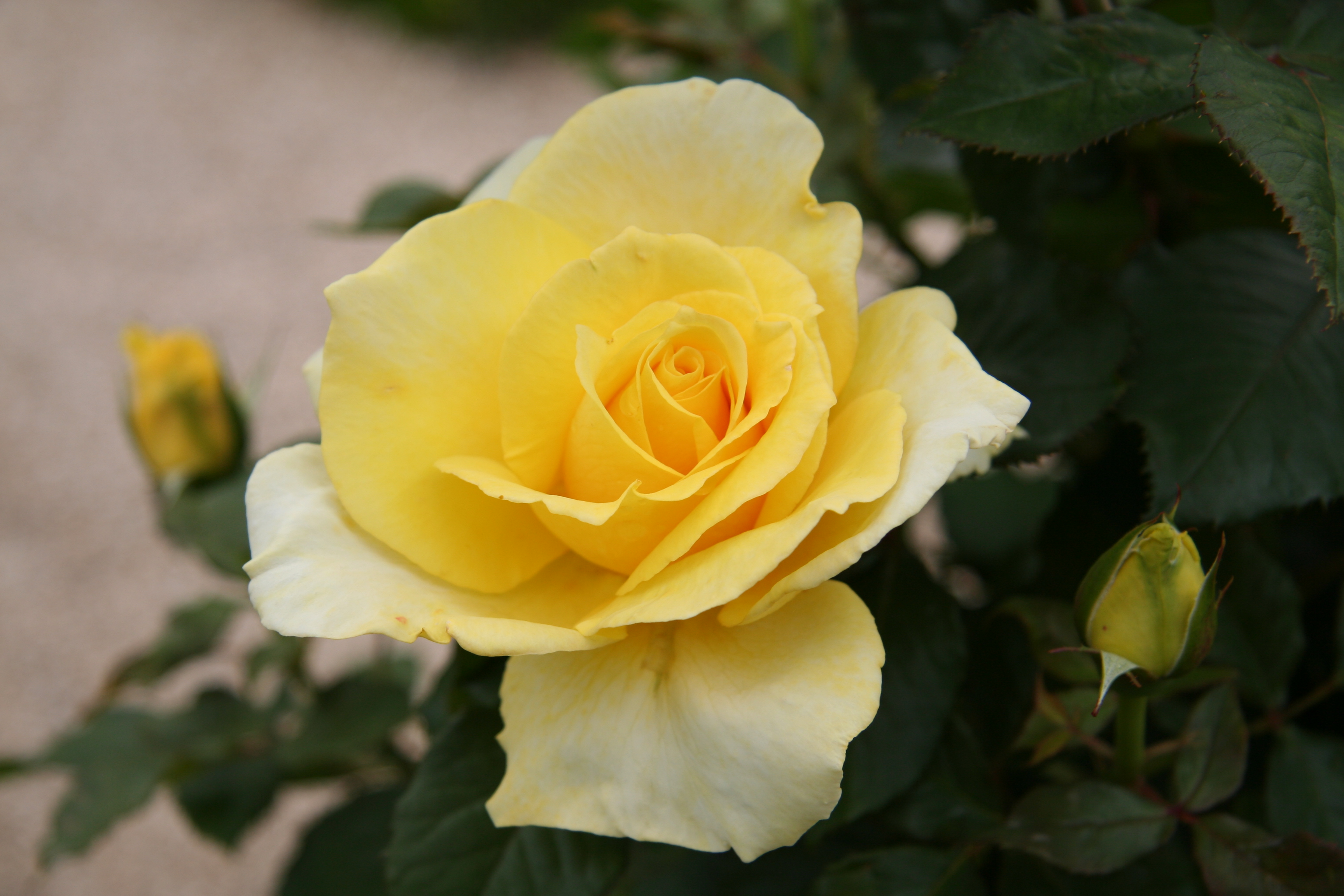 Apéritif rose - Bagatelle Rose Garden (Paris, France).